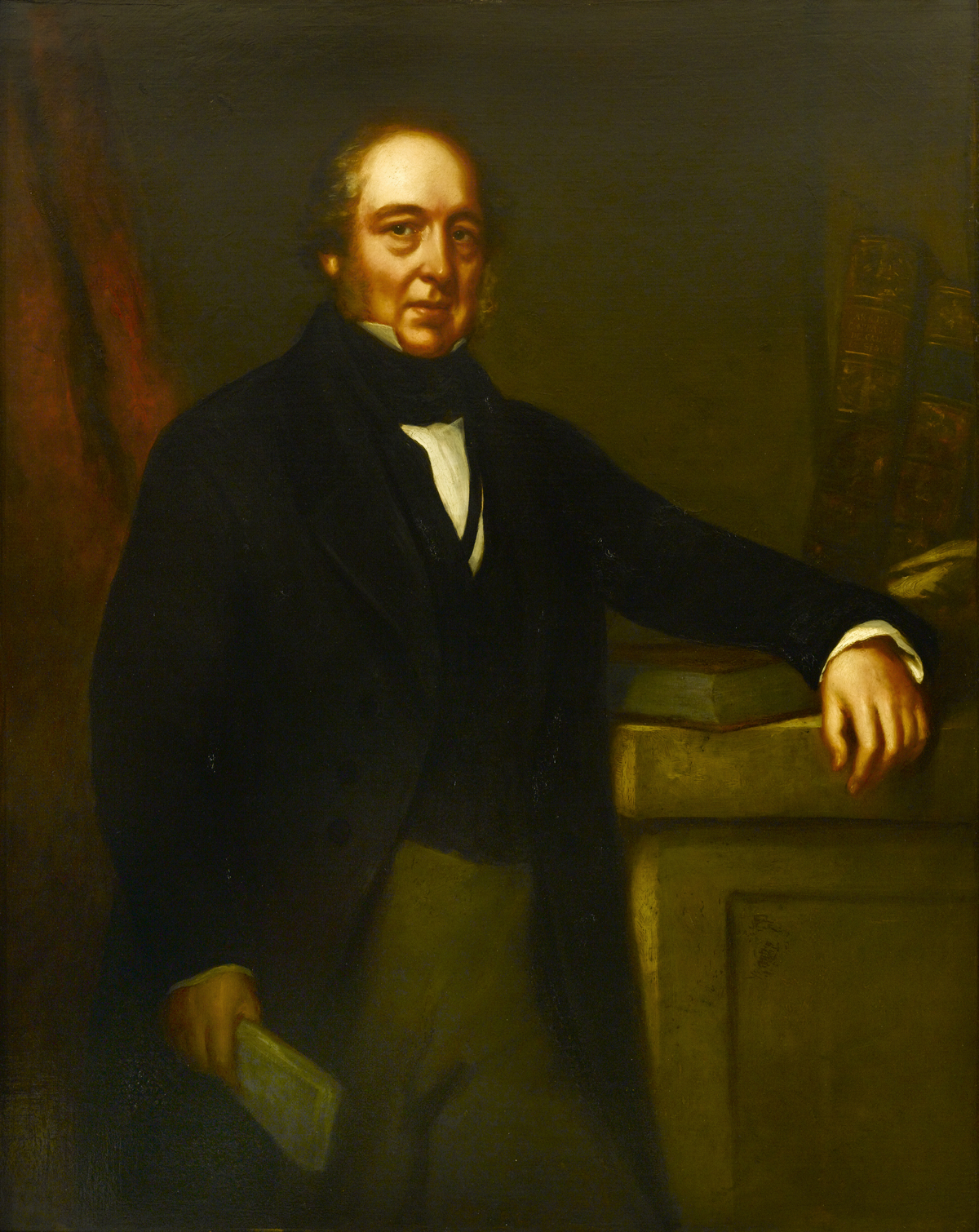 Depicts Clement Hue. In the possession of the Foundling Museum. Accession number: FM10 Presented by several Foundling Hospital Governors, 1849.